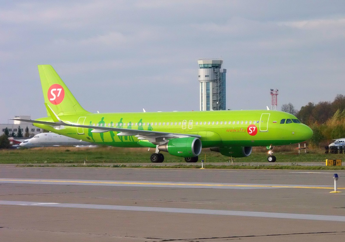 Airbus A320 S7 Airlines at Kazan International Airport